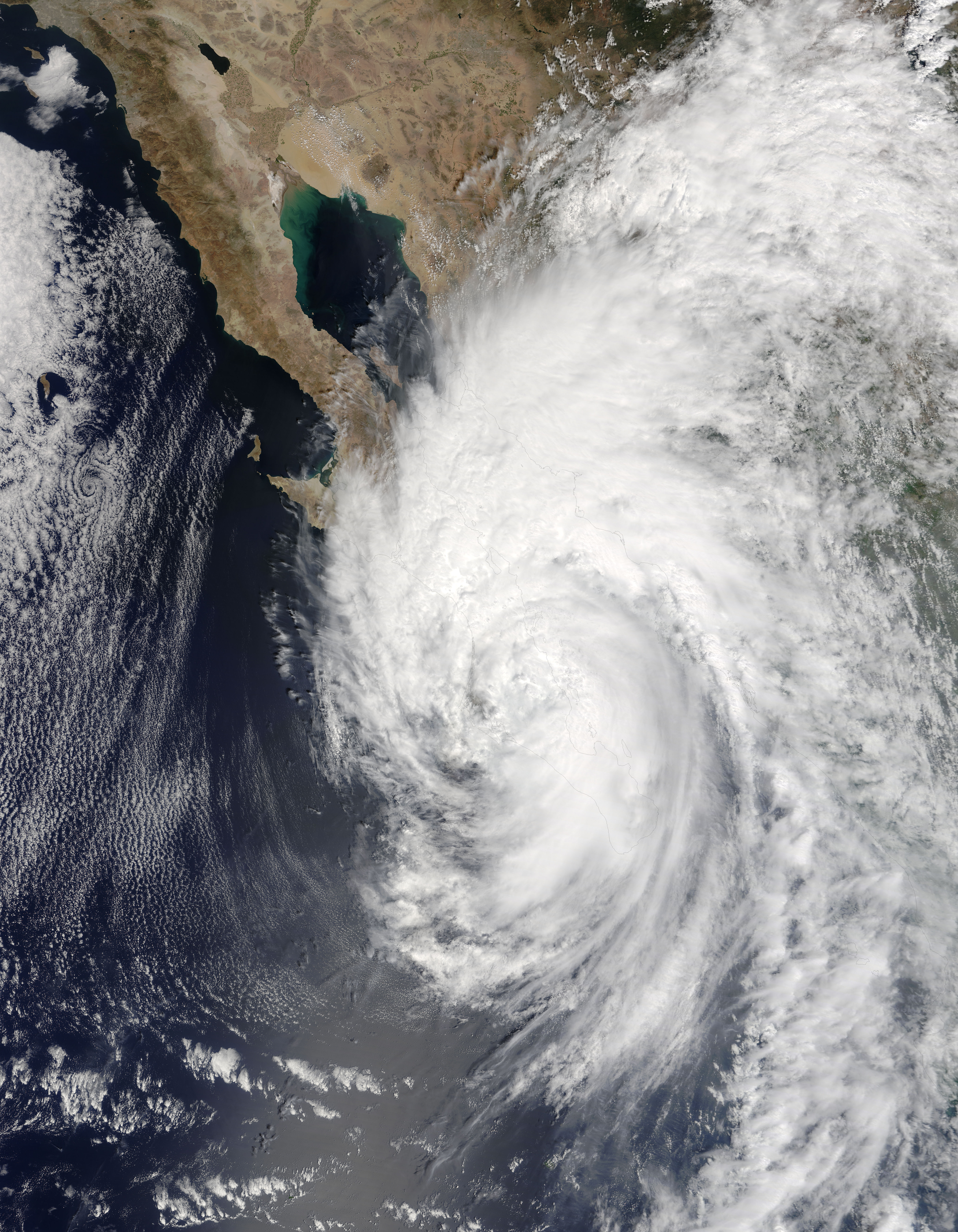 Hurricane Newton (15E) over Mexico